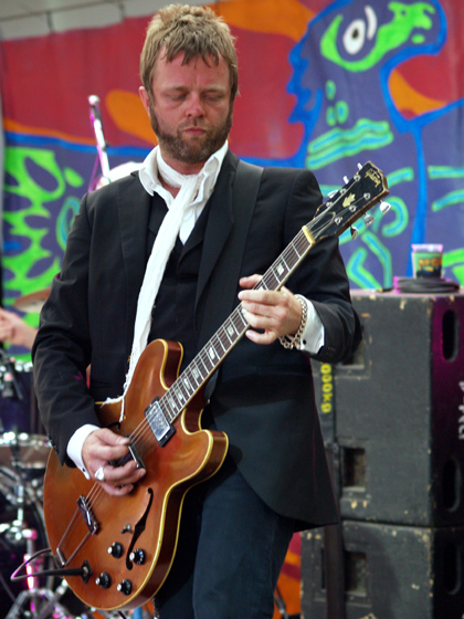 The Soundtrack of Our Lives Meredith Music Festival December 2006